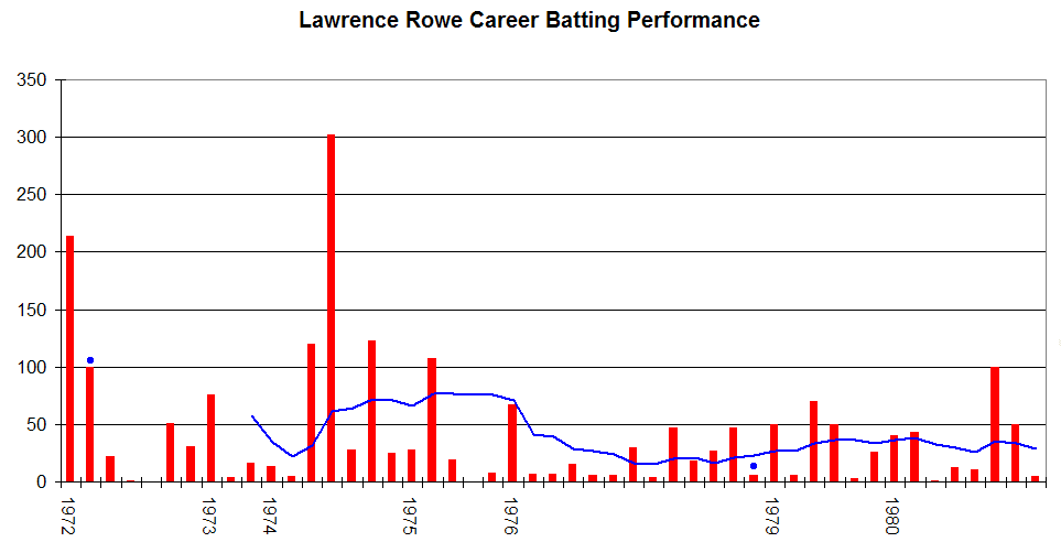 This graph details the Test Match performance of Lawrence Rowe. It was created by Raven4x4x. The red bars indicate the player's test match innings, while the blue line shows the average of the ten most recent innings at that point. Note that this average cannot be calculated for the first nine innings. The blue dots indicate innings in which Rowe finished not-out. This graph was generated with Microsoft Excel 2002, using data from Cricinfo and .au.